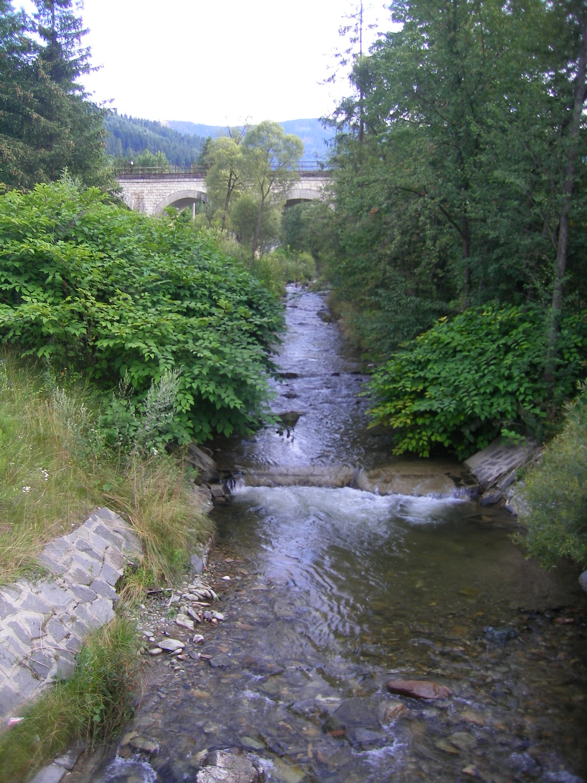 Stará Voda - stream Stará Voda and the viaduct